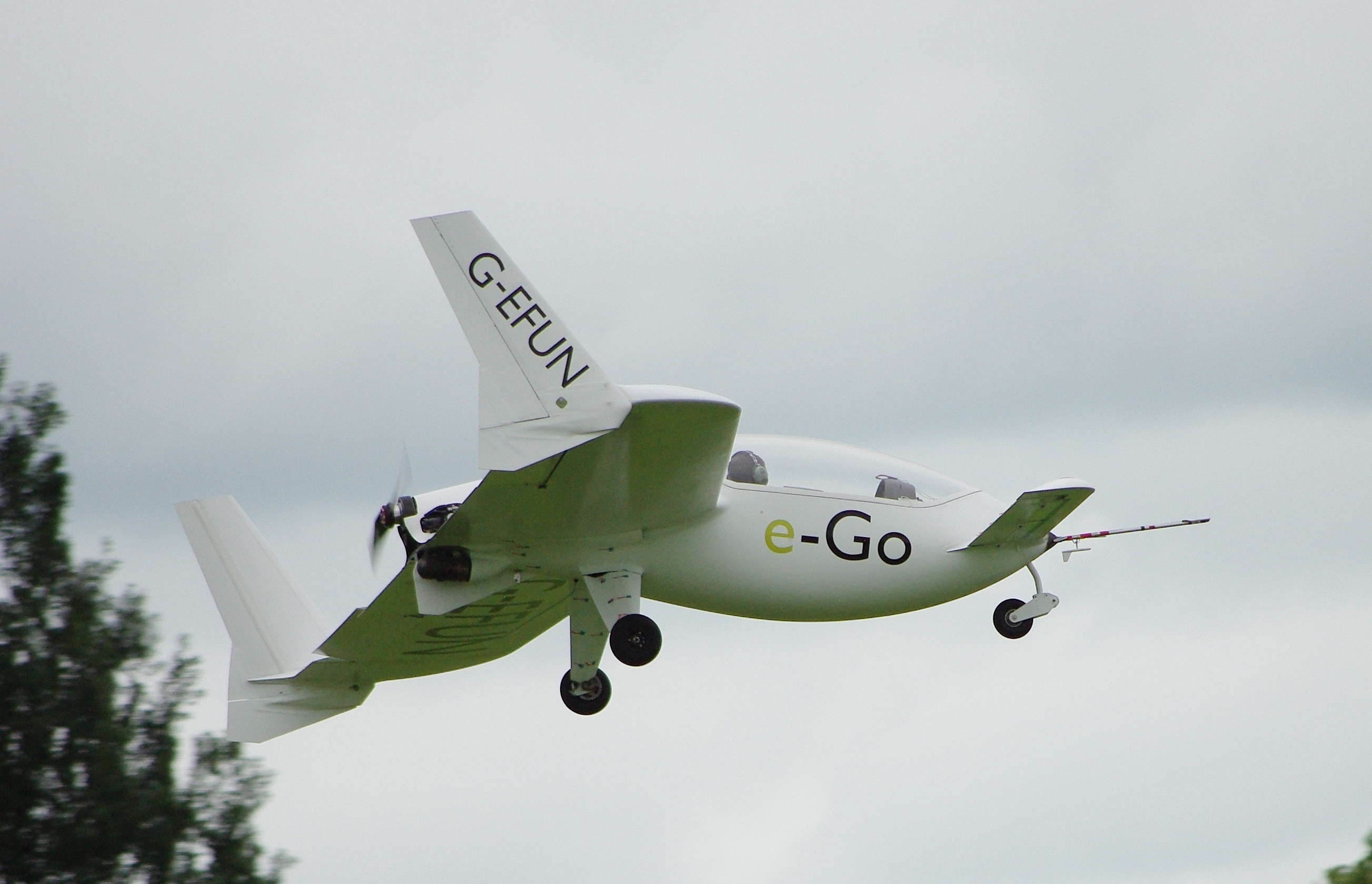 e-Go at old Warden 15 June 2014